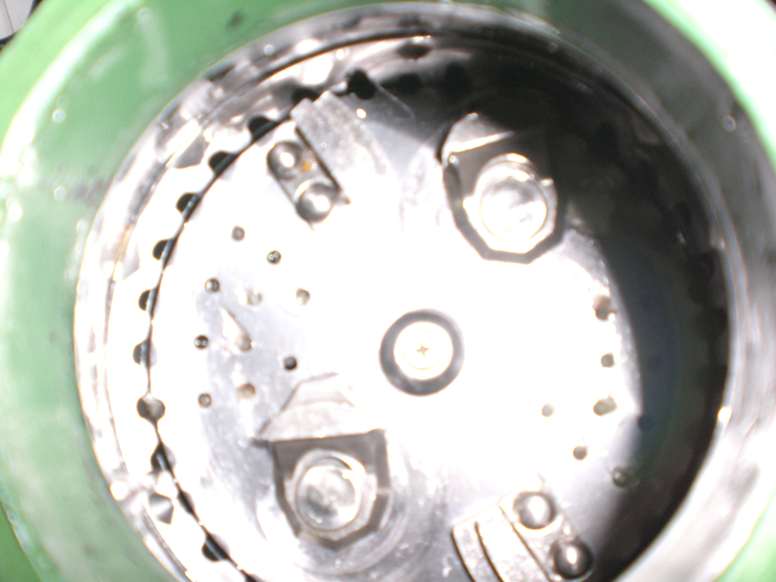 Garbage, or food waste disposal from above